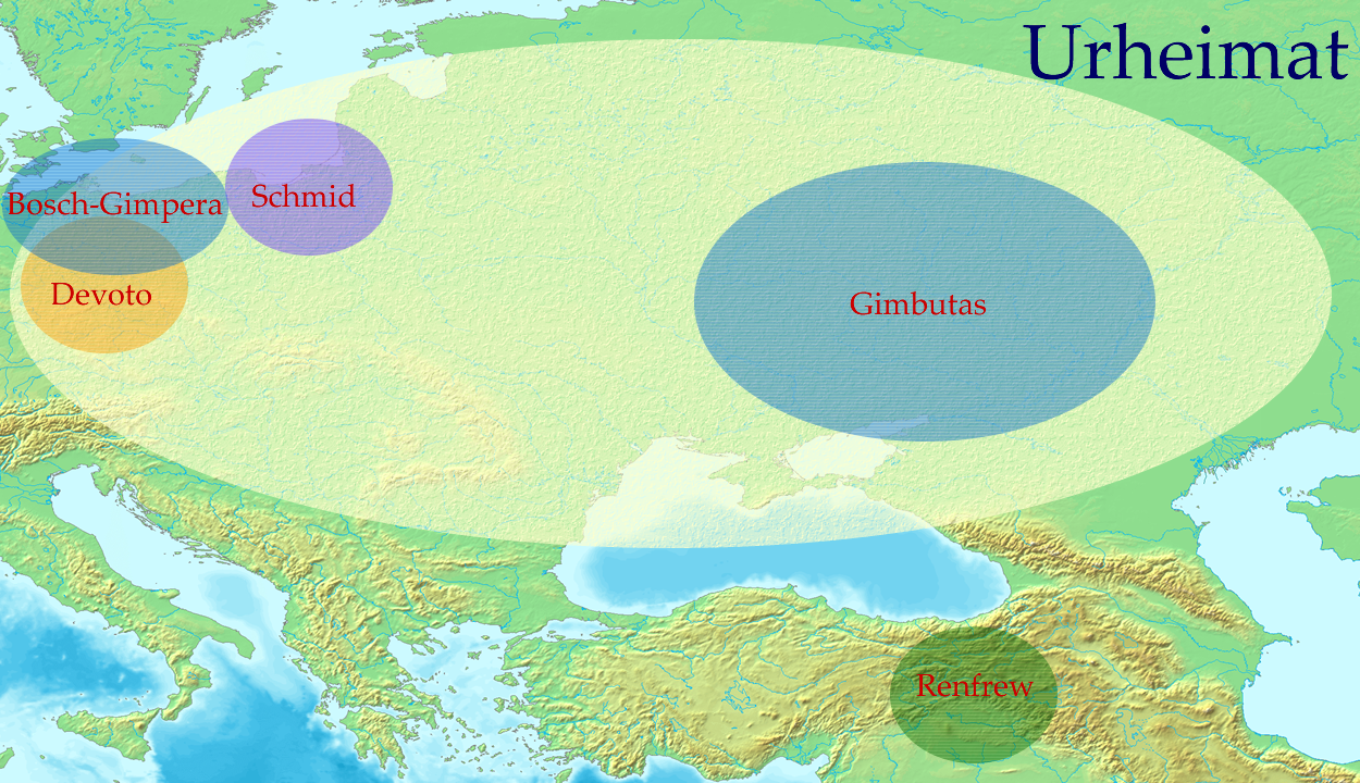 Different hypotheses on the location of the Indo-European homeland (Urheimat)